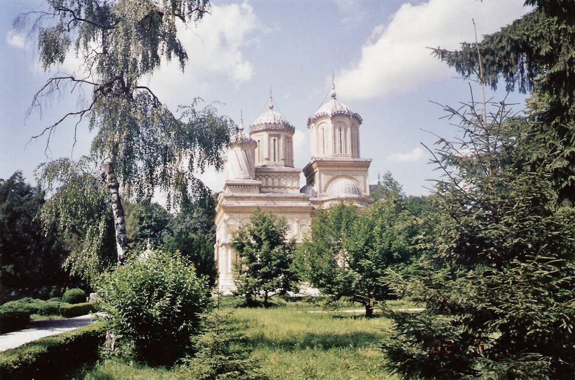 curta d'argesh church, rumania